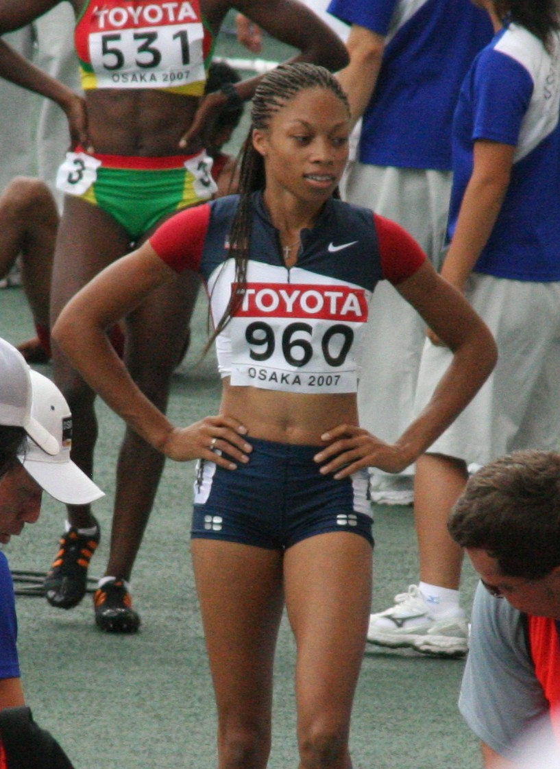 World Athletics Championships 2007 in Osaka - US 200 metres runner Allyson Felix